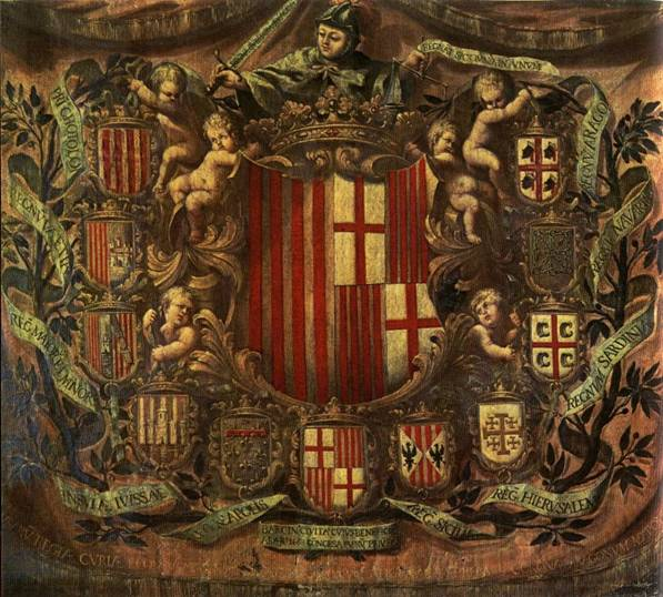 Apoteosis Heraldica 1681 Museu d'Història de Barcelona (MUHBA) inv MHCB 447, i 4 mori sardi sono nettamente distinti iconograficamente dai 4 mori d'Aragona